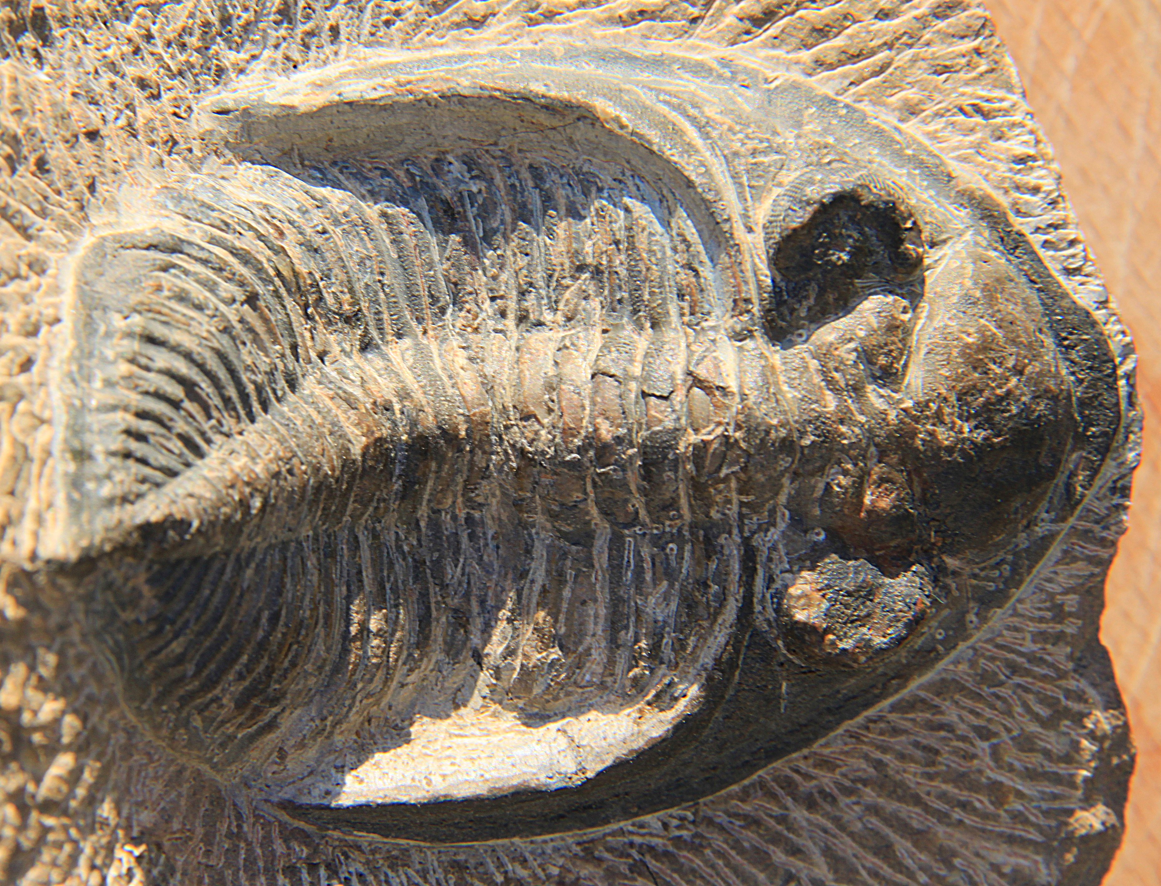 A trilobite of the genus Odontochile, Order Phacopida, Family Dalmanitidae, 73mm measured along the axis, dorsal view, collected near Hamar Laghdad, Morocco, from the Middle Devonian